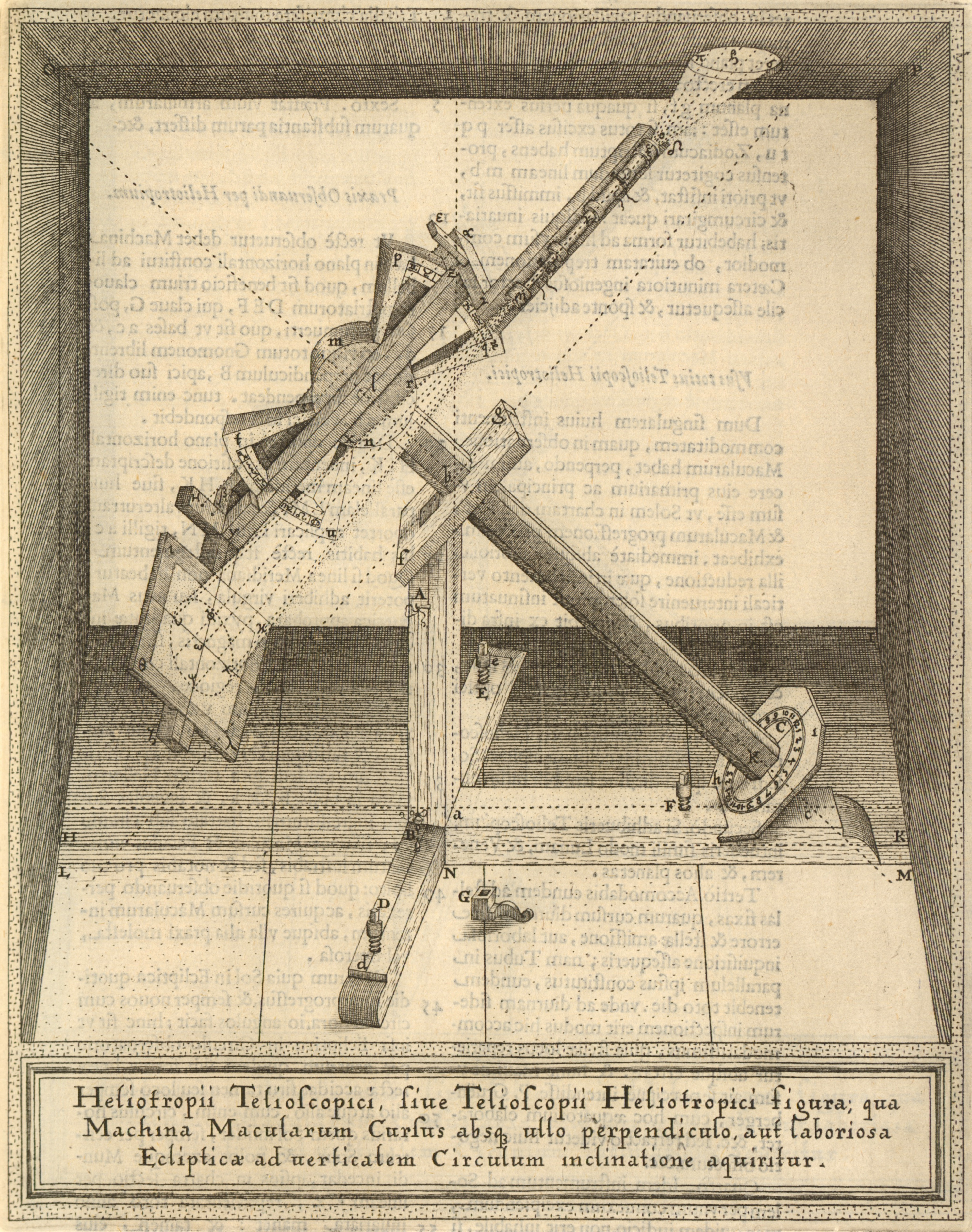 Engraving of an instrument to observe sunspots. From "Rosa Ursina, sive sol ex admirando facularum & macularum suarum phoenomeno varius" by Christoph Scheiner (1573-1650)